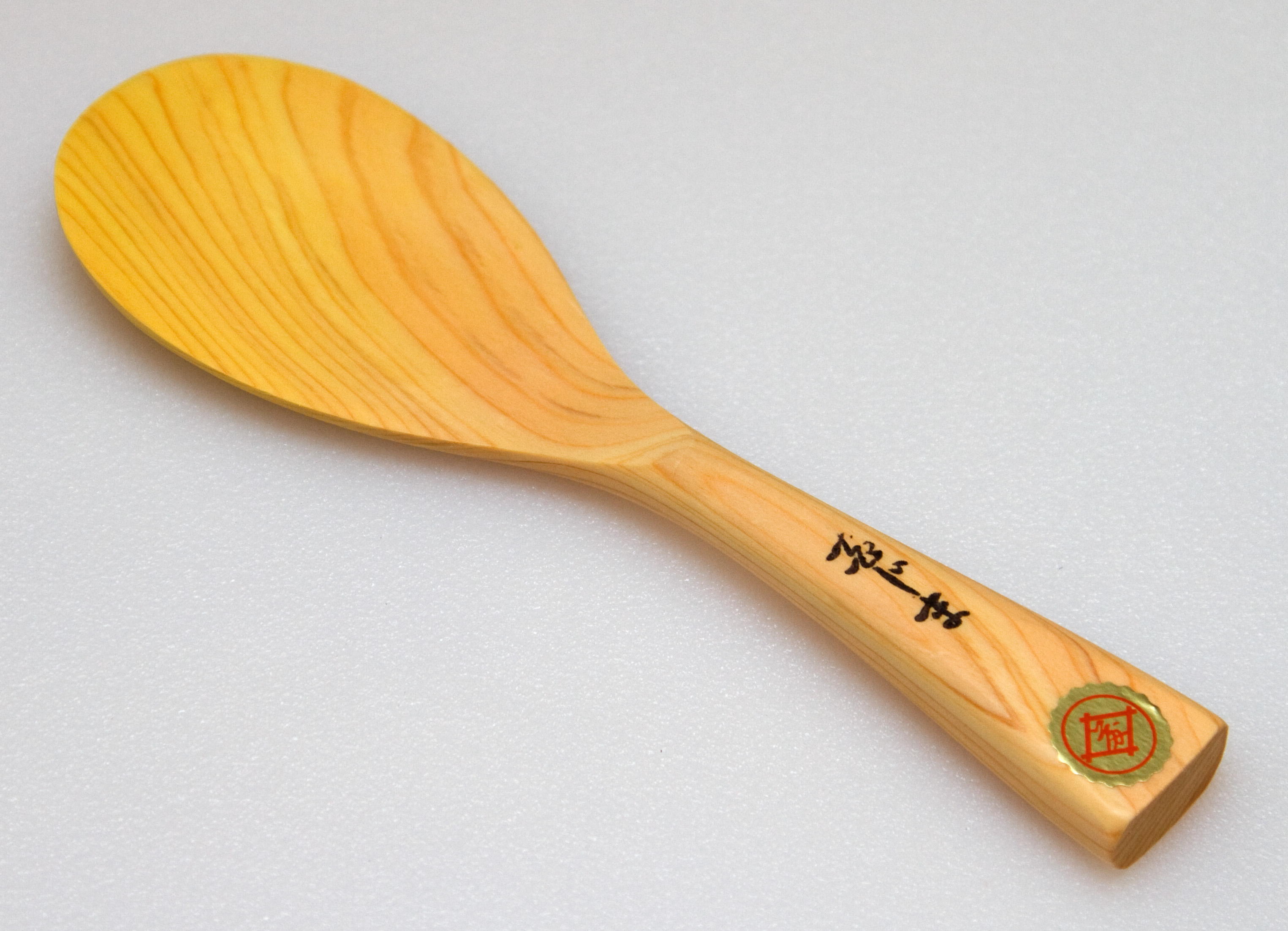 Shakushi, Japanese rice ladle. Inscribed with 宮じま (Miyajima).